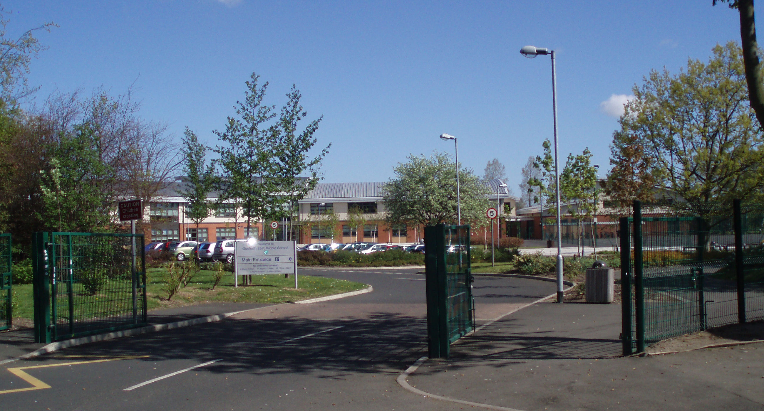 A Photograph of Gosforth East Middle School, Gosforth, Newcastle upon Tyne, England.